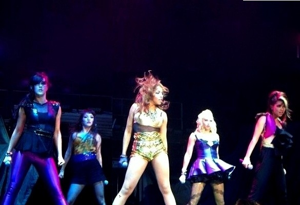 American pop group The Stunners performing live in My Wolrd Tour by Justin Bieber, 2010.